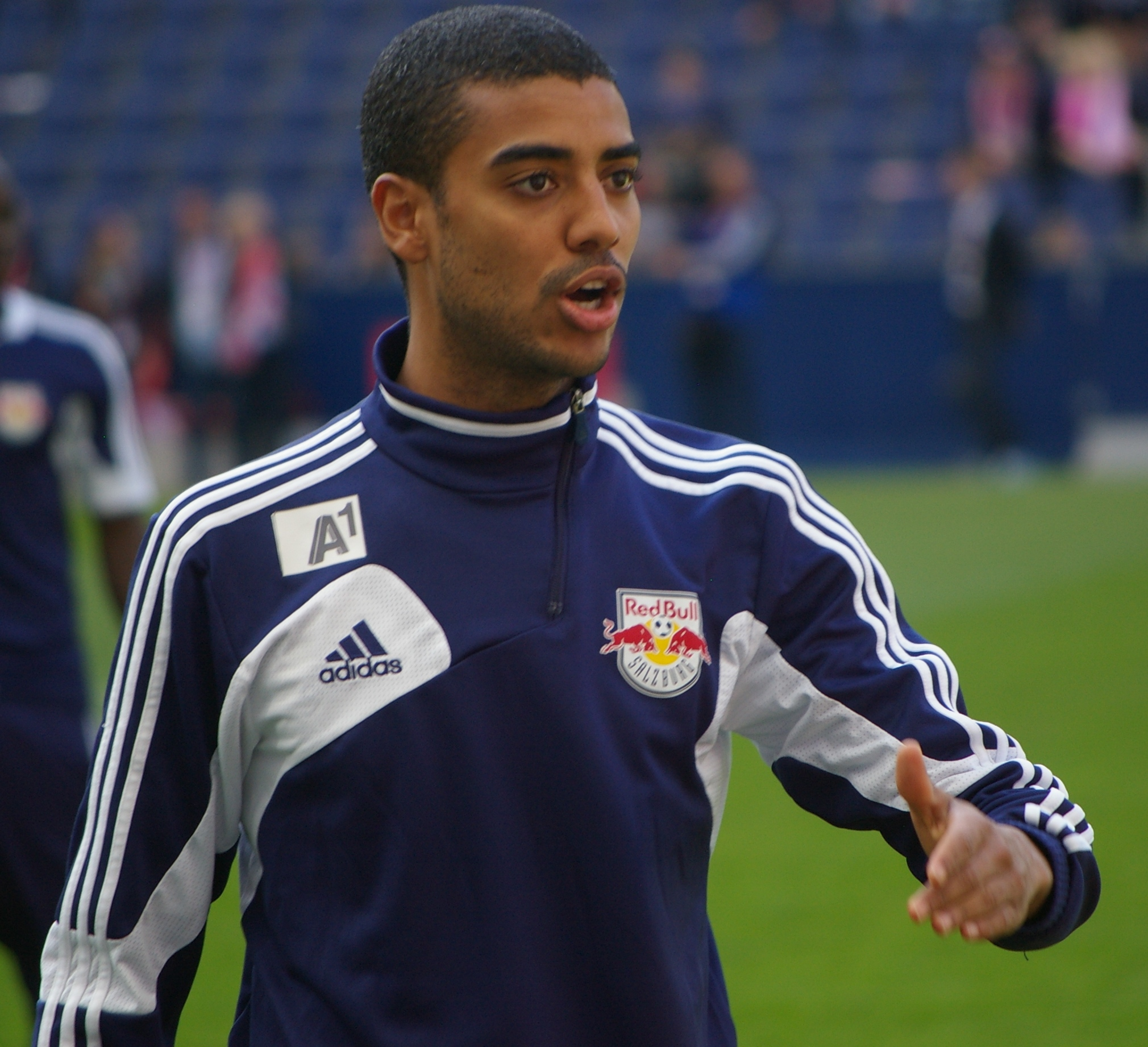 Austrian Bundesliga league match